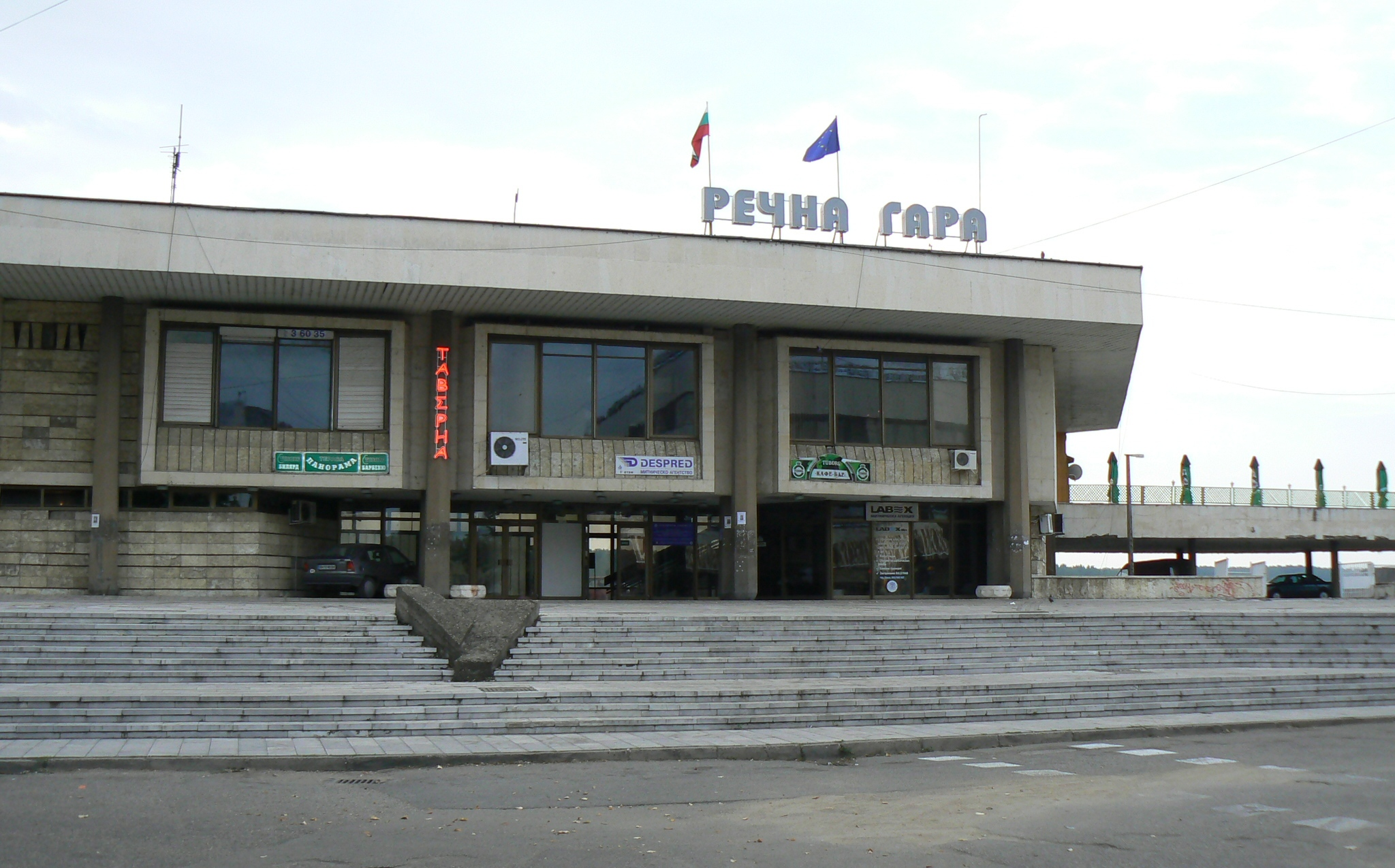 The river station on Danube River in Vidin, Bulgaria